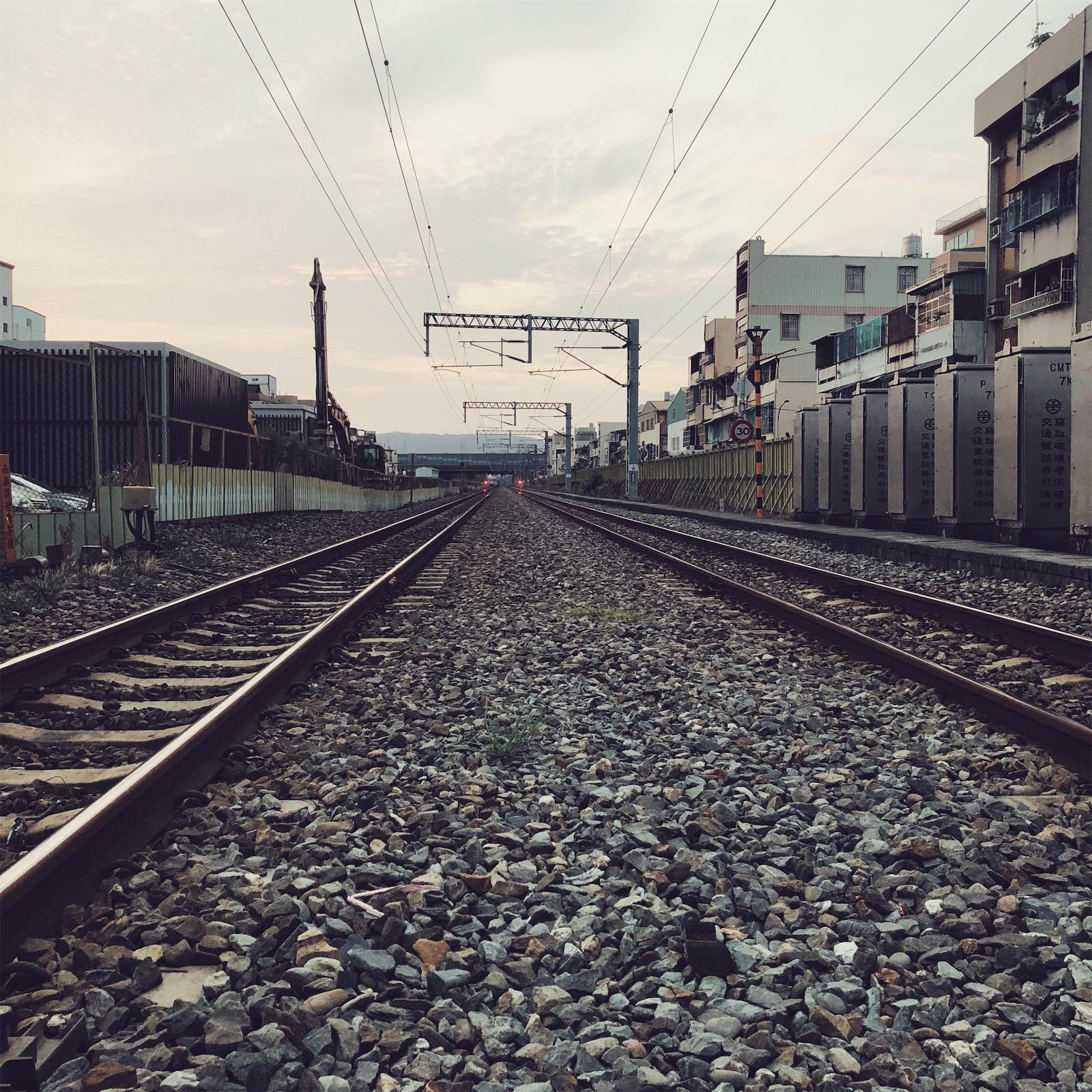 Looking to the eastern direction at Zhengyi Road Level Crossing, Kaohsiung City.